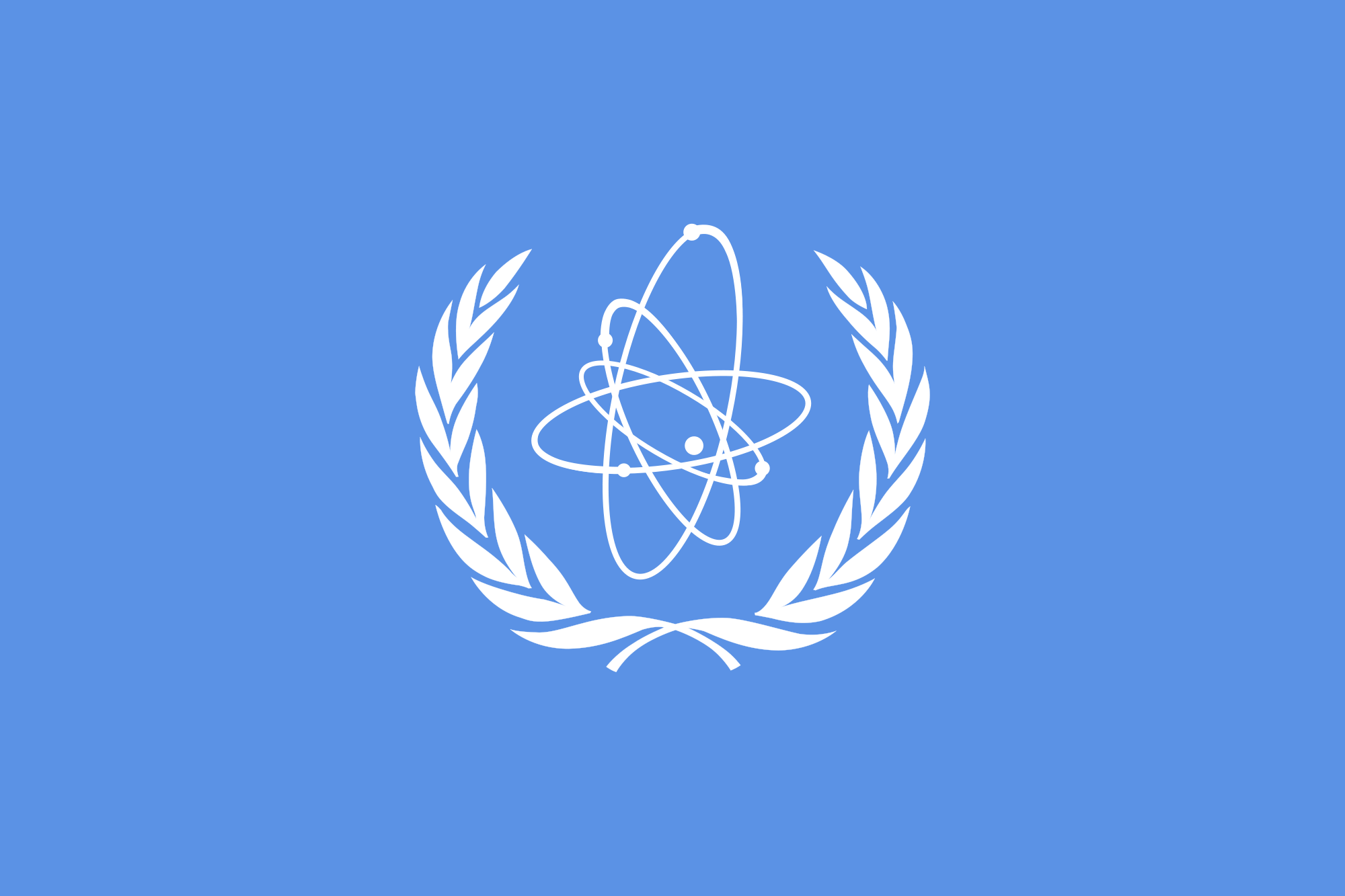 Flag of the International Atomic Energy Agency (IAEA), an organization of the United Nations